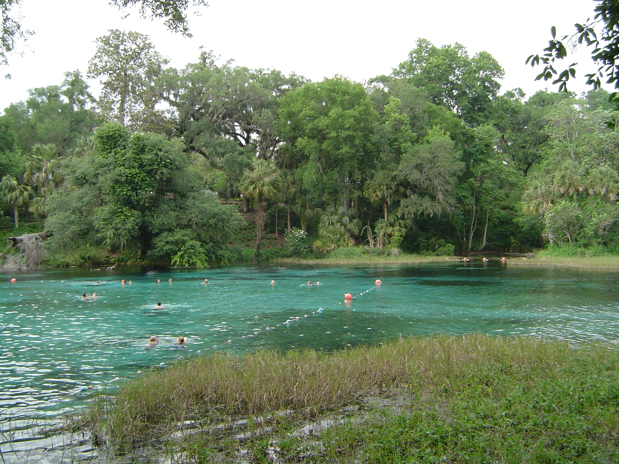 Photograph of Rainbow Springs in Marion County, Florida (2005).